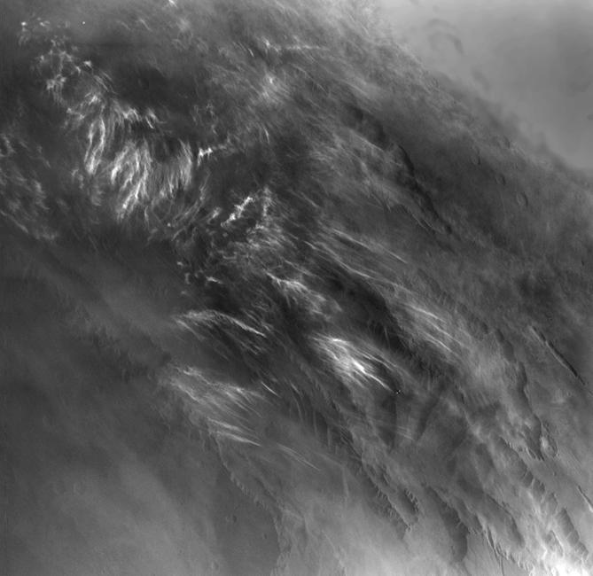 PIA17940: Martian Morning Clouds Seen by Viking Orbiter 1 in 1976 No NASA Mars orbiter has been in a position to observe morning daylight on Mars since the twin Viking orbiters of the 1970s. This image, taken by Viking Orbiter 1 on Aug. 17, 1976, shows water-ice clouds in the Valles Marineris area of equatorial Mars during local morning time. North is to the upper left, and the scene is about 600 miles (about 1,000 kilometers) across. Although a few observations of Mars in morning daylight have come from the Viking orbiters and the European Space Agency's Mars Express orbiter, no mission has systematically studied how morning features such as clouds, fogs and surface frost develop in different Martian seasons in different parts of the planet. NASA's Mars Odyssey orbiter, in 2014, is in the process of changing its orbit to enable such systematic morning daylight observations. JPL manages Odyssey for NASA's Science Mission Directorate in Washington. Lockheed Martin Space Systems built the spacecraft and collaborates with JPL in mission operations. For more about the Mars Odyssey mission, visit